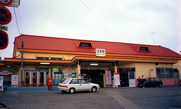 Old building of Sano Station on JR East Ryomo Line